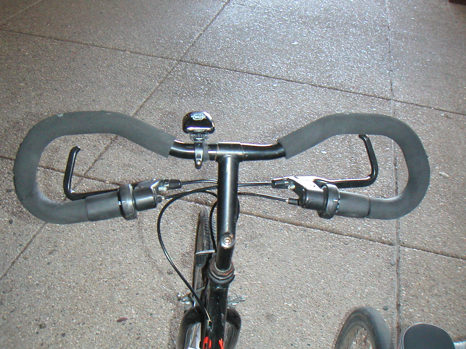 Hybrid handlebars (trekking bars) on a [bicycle